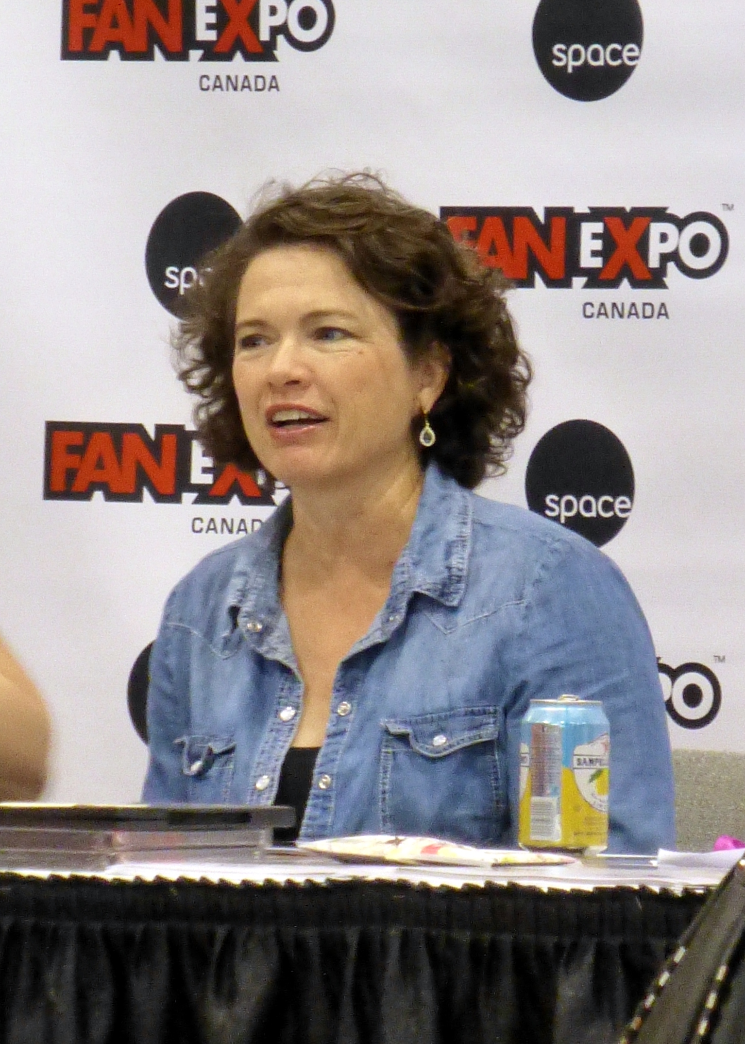 Heather Langenkamp 01 2014 Fan Expo Canada